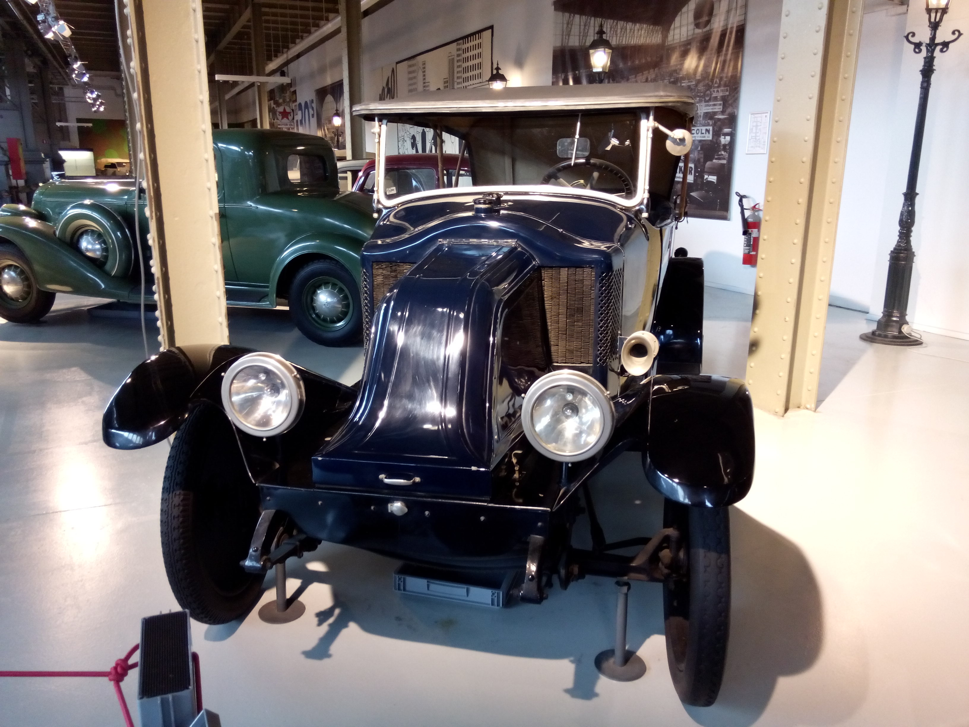 Louis Renault was an uncontested rival of André Citroën, the first car manufacturer in Europe to use a production line, followed by Renault. Renault's car were mid-range models and more American in style than those of Citroën, hence the steering wheel on the left.